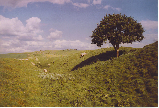 The Wansdyke, Looking East to Milk Hill. This Ancient British earthwork crosses a grassy Downland landscape, remarkably bare of trees. This isolated tree is a good landmark. Sheep in the ditch find shelter from the wind.